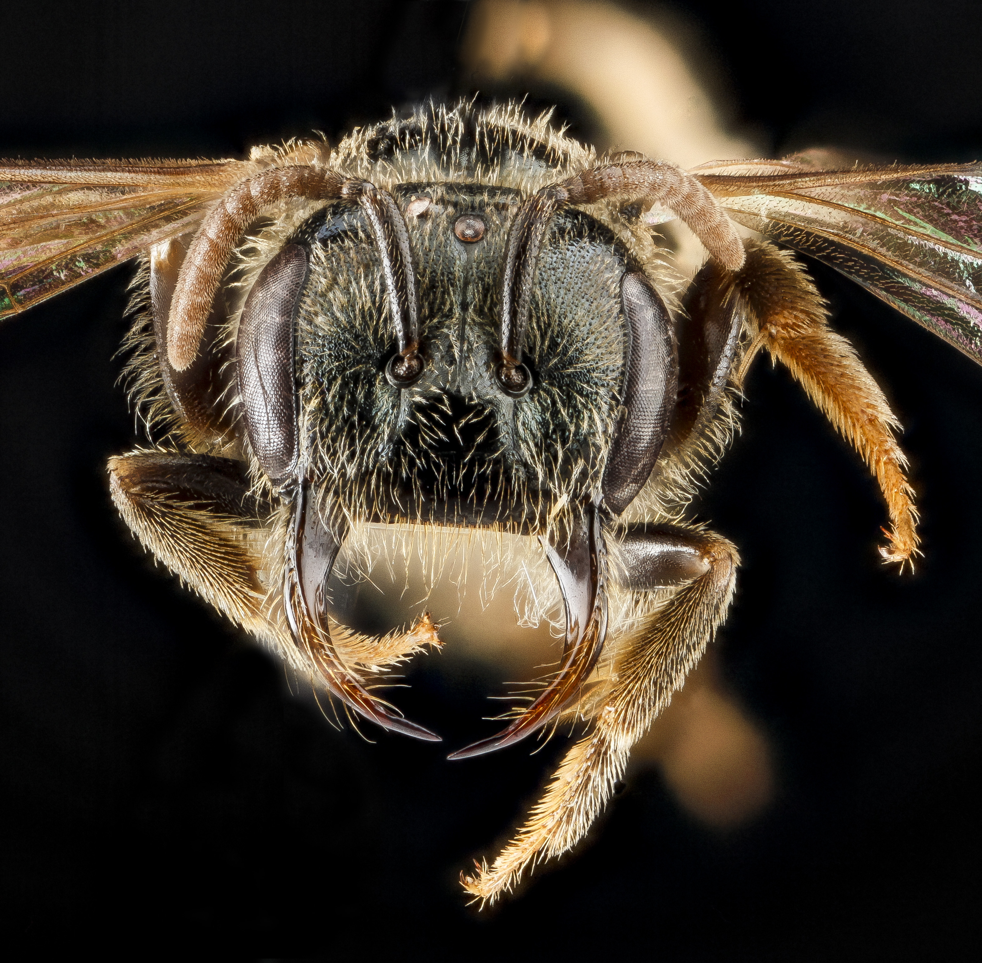 Lasioglossum rozeni, Female, Frederick County, Maryland, Catoctin Mountain Park, a nest parasite of other Lasioglossum species